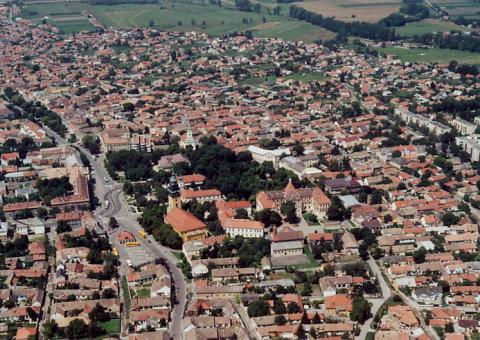 Downtown of Nagykőrös from East, Pest County, Hungary. Aerialphotography